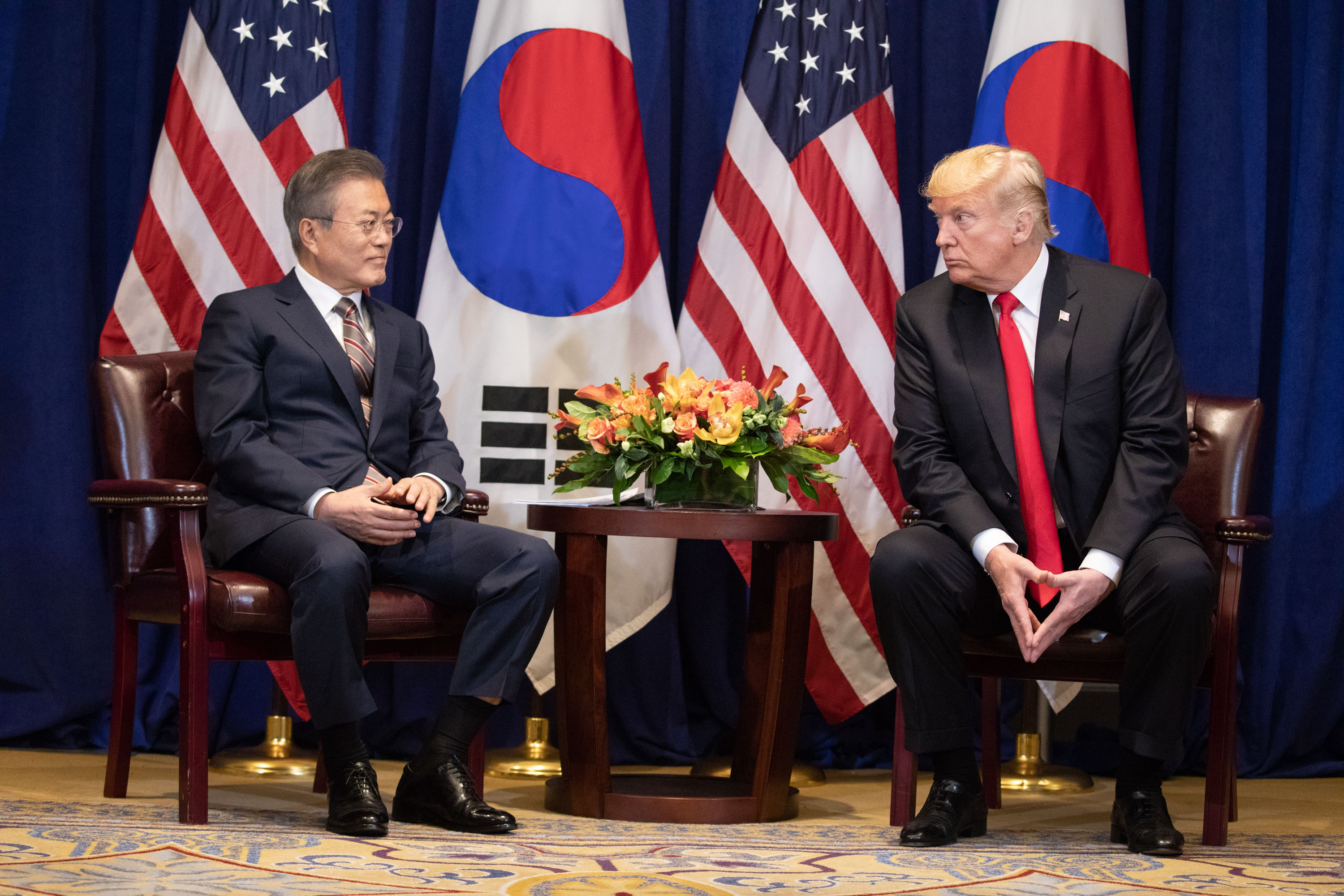 President Donald J. Trump and Moon Jae-in, President of the Republic of Korea, participate in bilateral discussions Monday, Sept. 24, 2018, at the New York Palace hotel in New York City. (Official White House photo by Shealah Craighead)